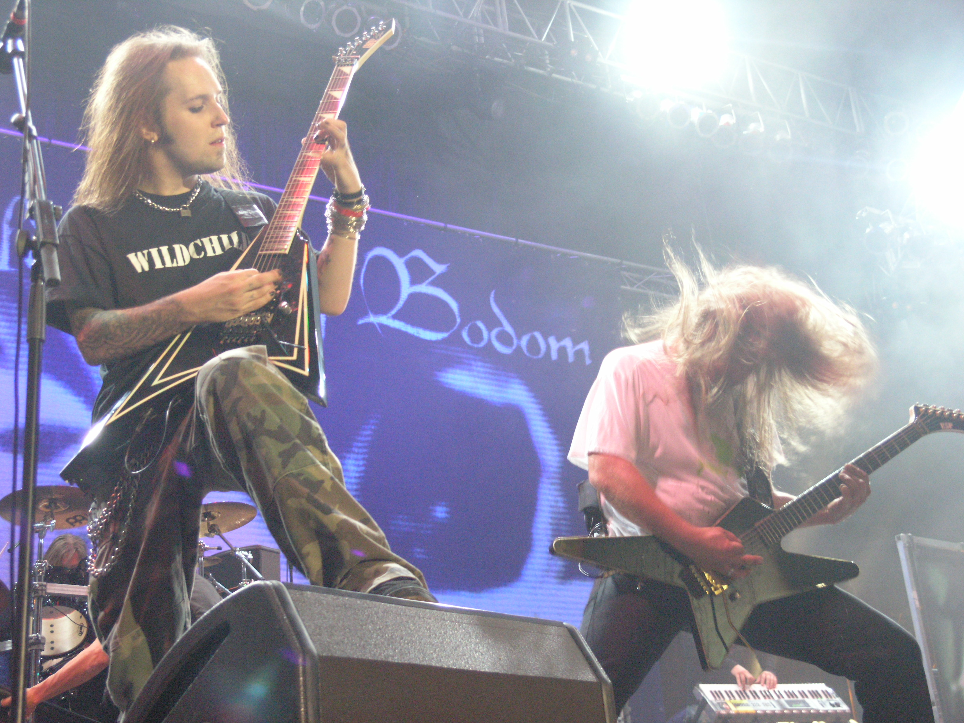 Foto De Un Shoot Th Su Ultimo Album